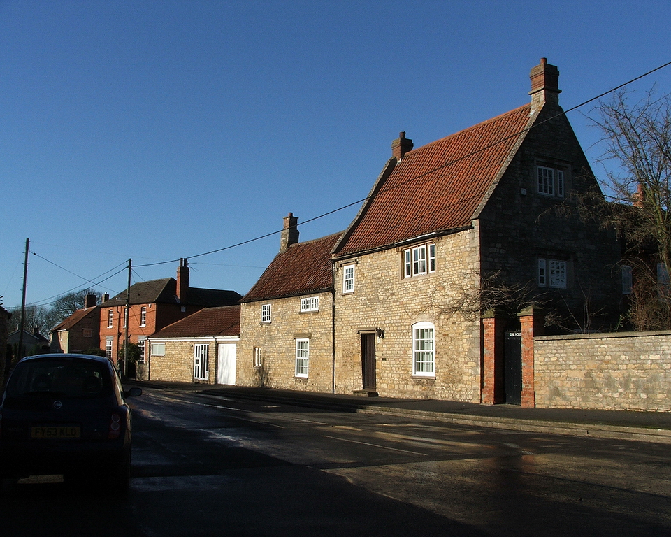 Dial House in Navenby in Lincolnshire, England.